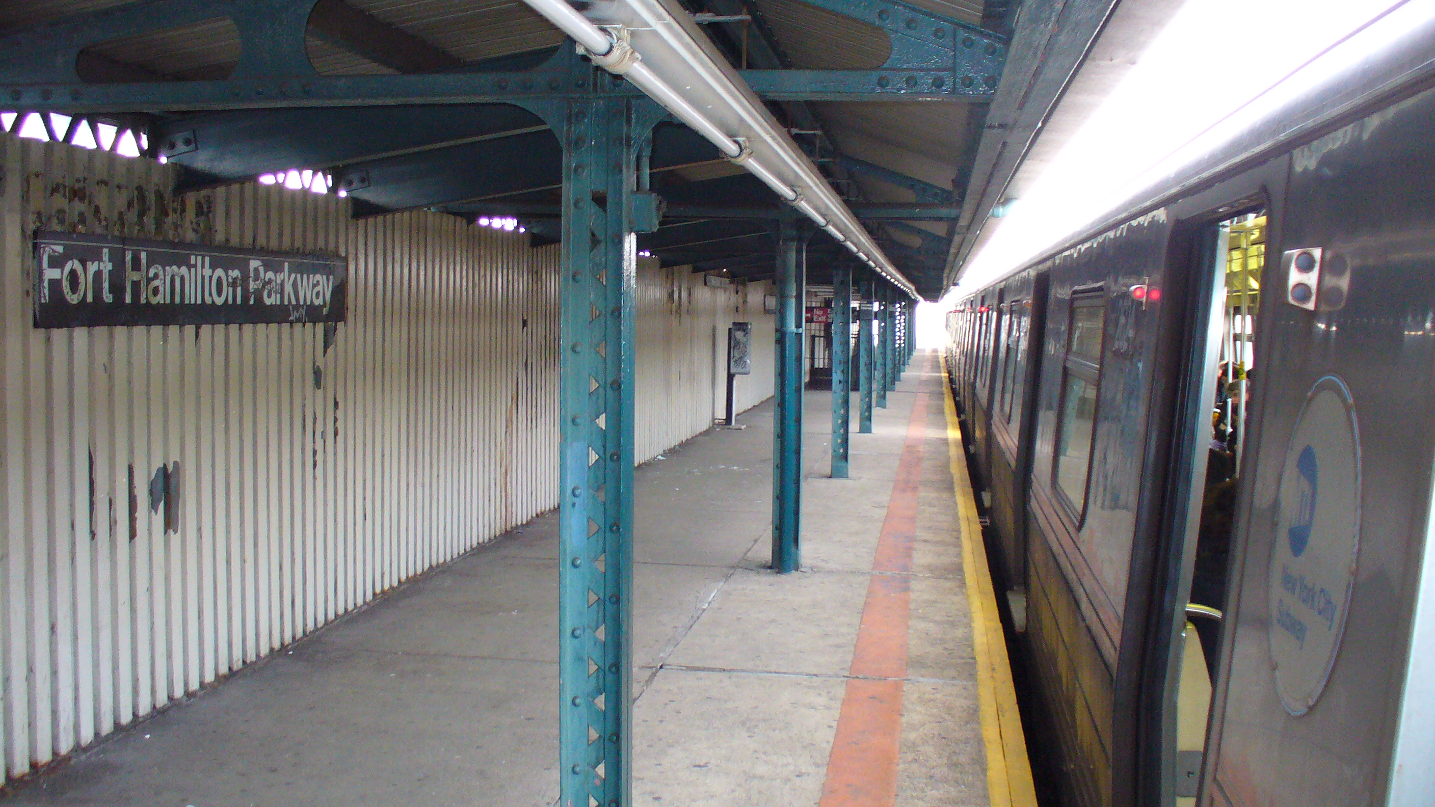 Fort Hamilton D Line NYC Subway Station by David Shankbone